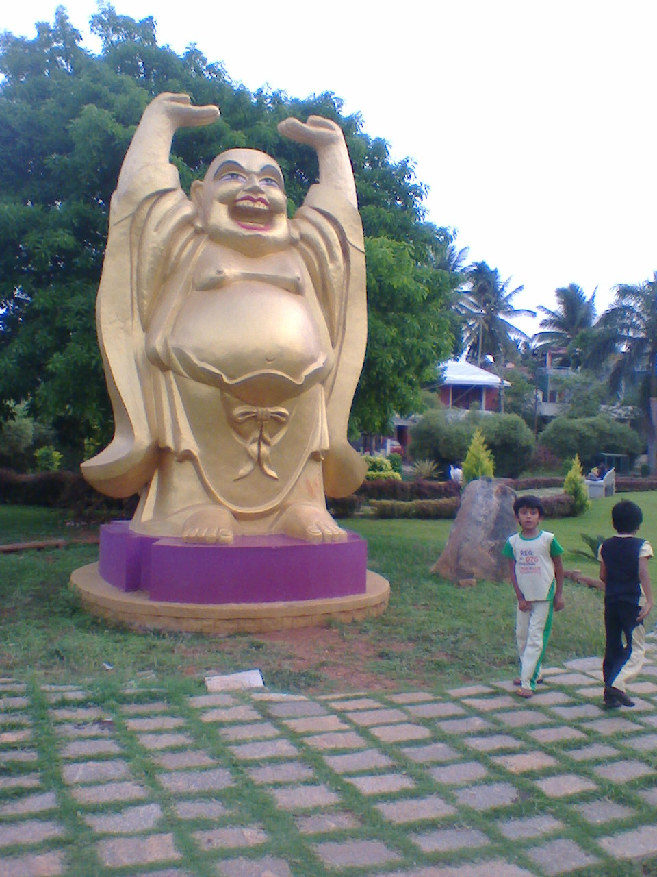 Kamakshi Hospital area, Mysore, India.